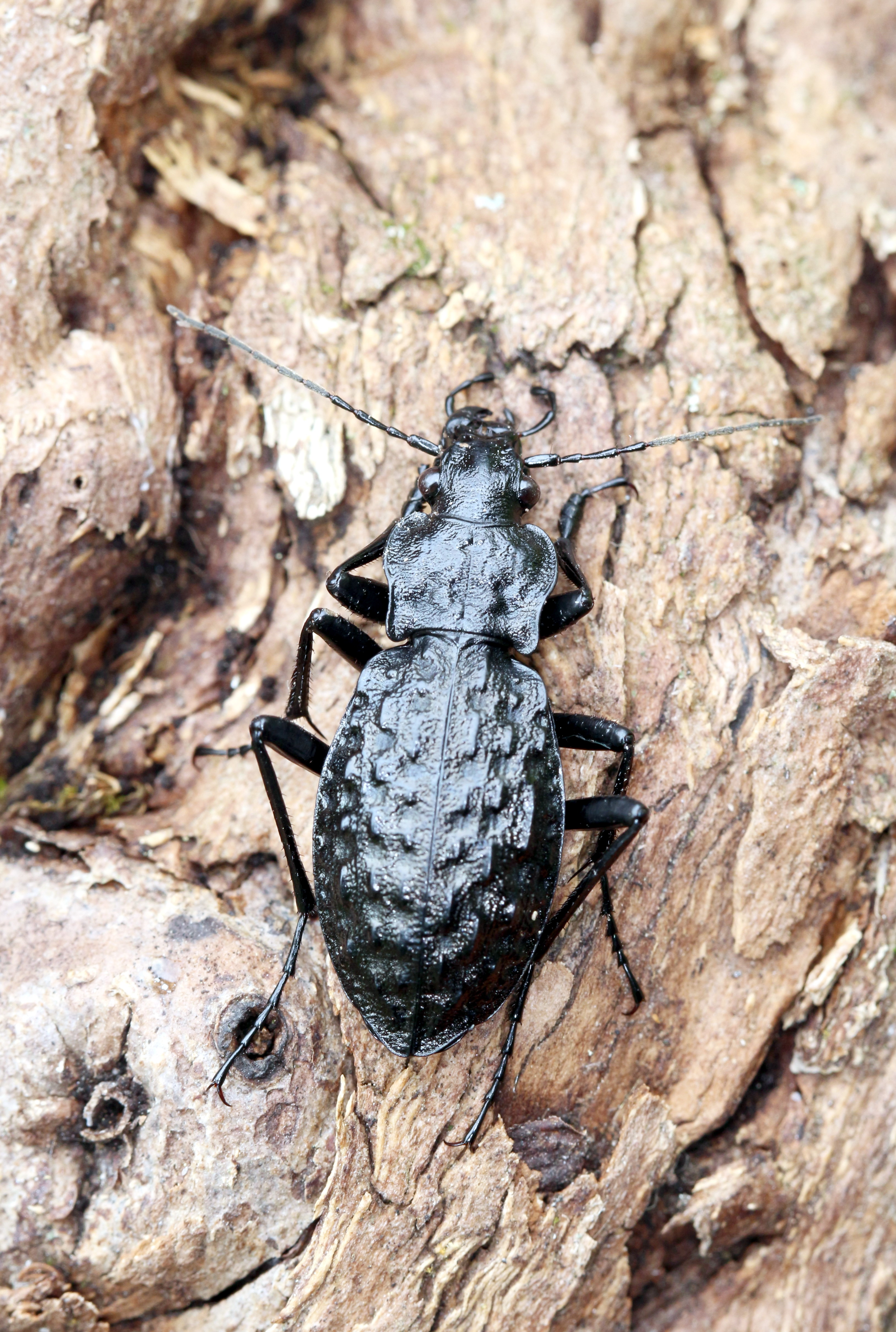 Carabus variolosus_Kuziy